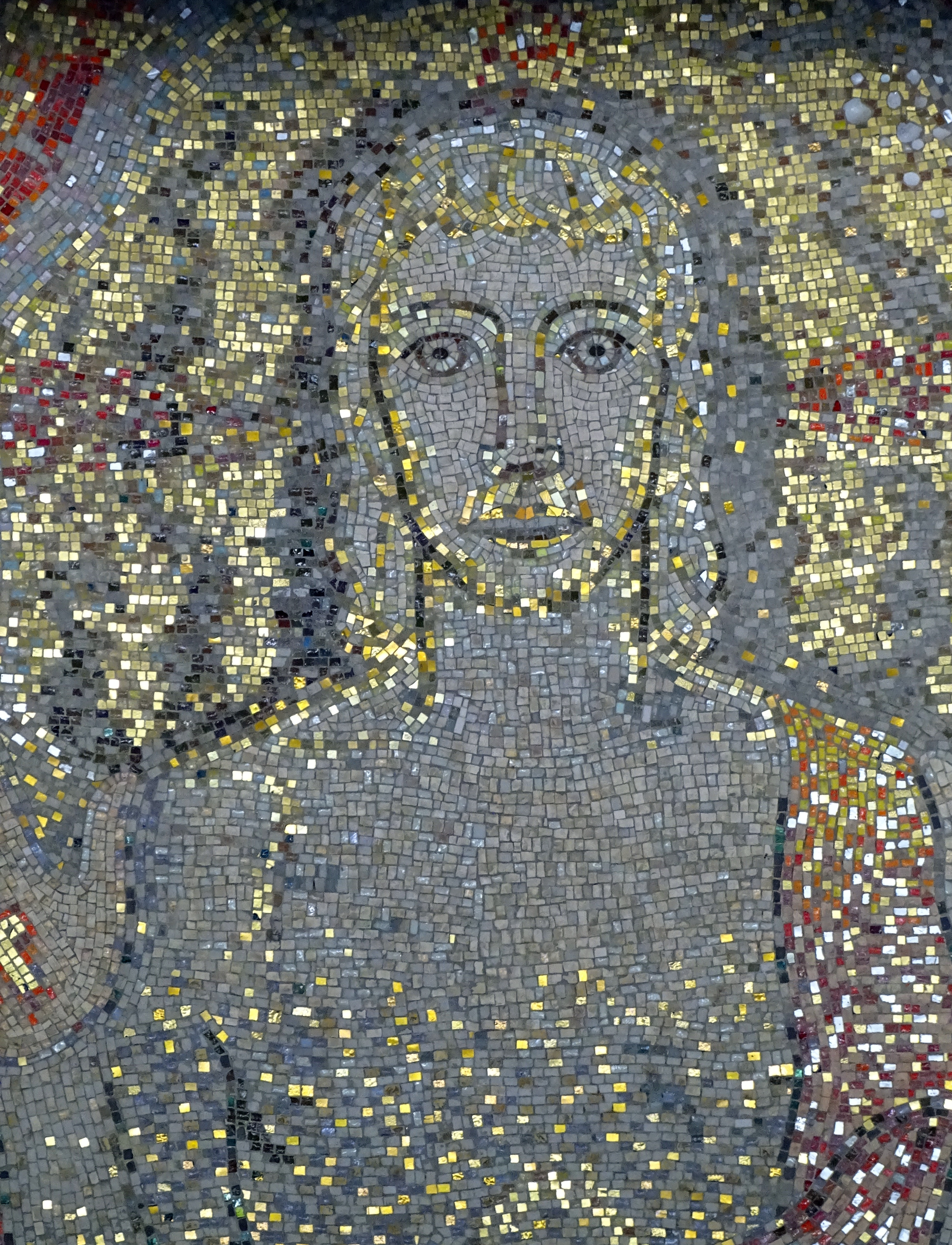 Stephanus Chapel in Meckenheim (Rhineland), Dechant-Kreiten-Straße: partial view of the mosaic in the chapel.